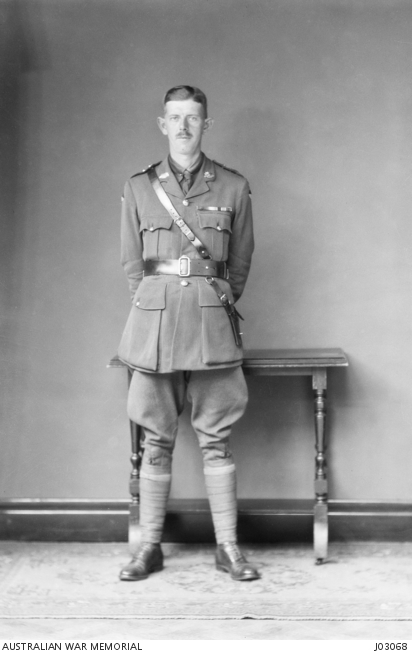 portrait of Australian World War I Victoria Cross recipient, Arthur Seaforth Blackburn